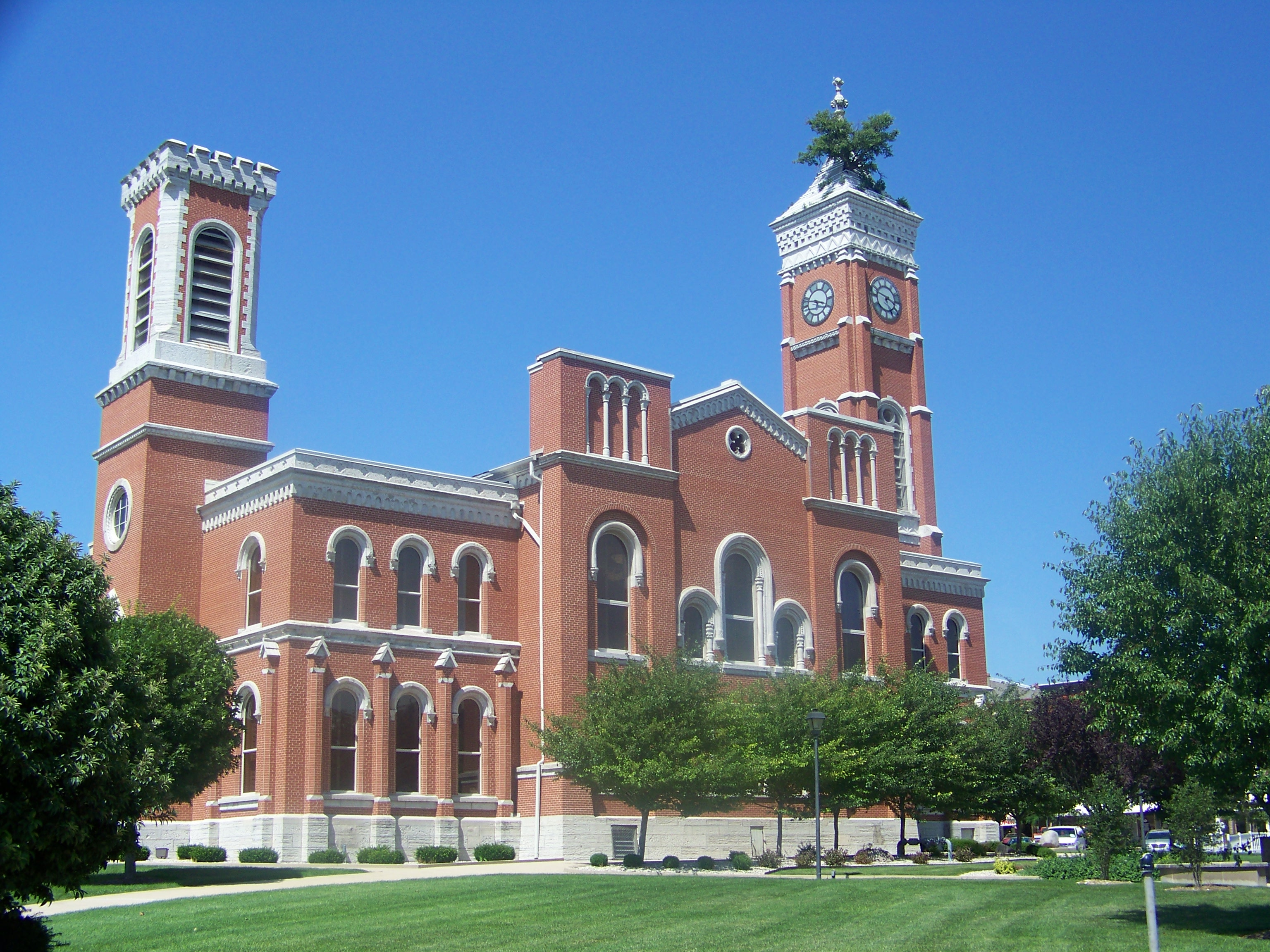 Tree on the Courthouse Tower in Greensburg, Indiana.